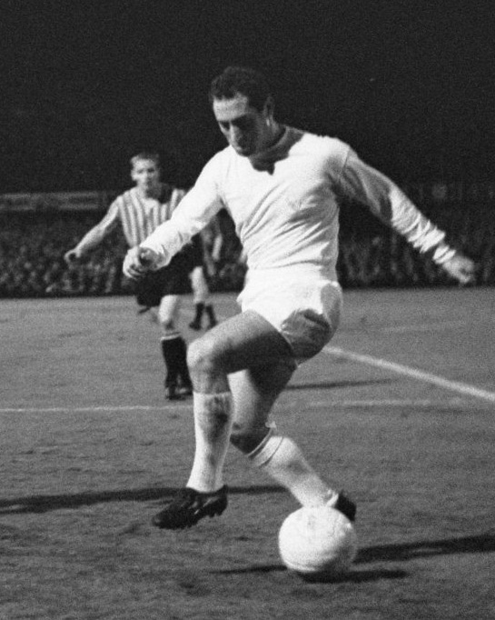 Real Madrid player Francisco Gento dribbling the ball in a match vs. Dutch team Feyenoord.